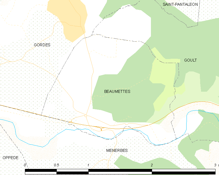 Map of French municipality Beaumettes